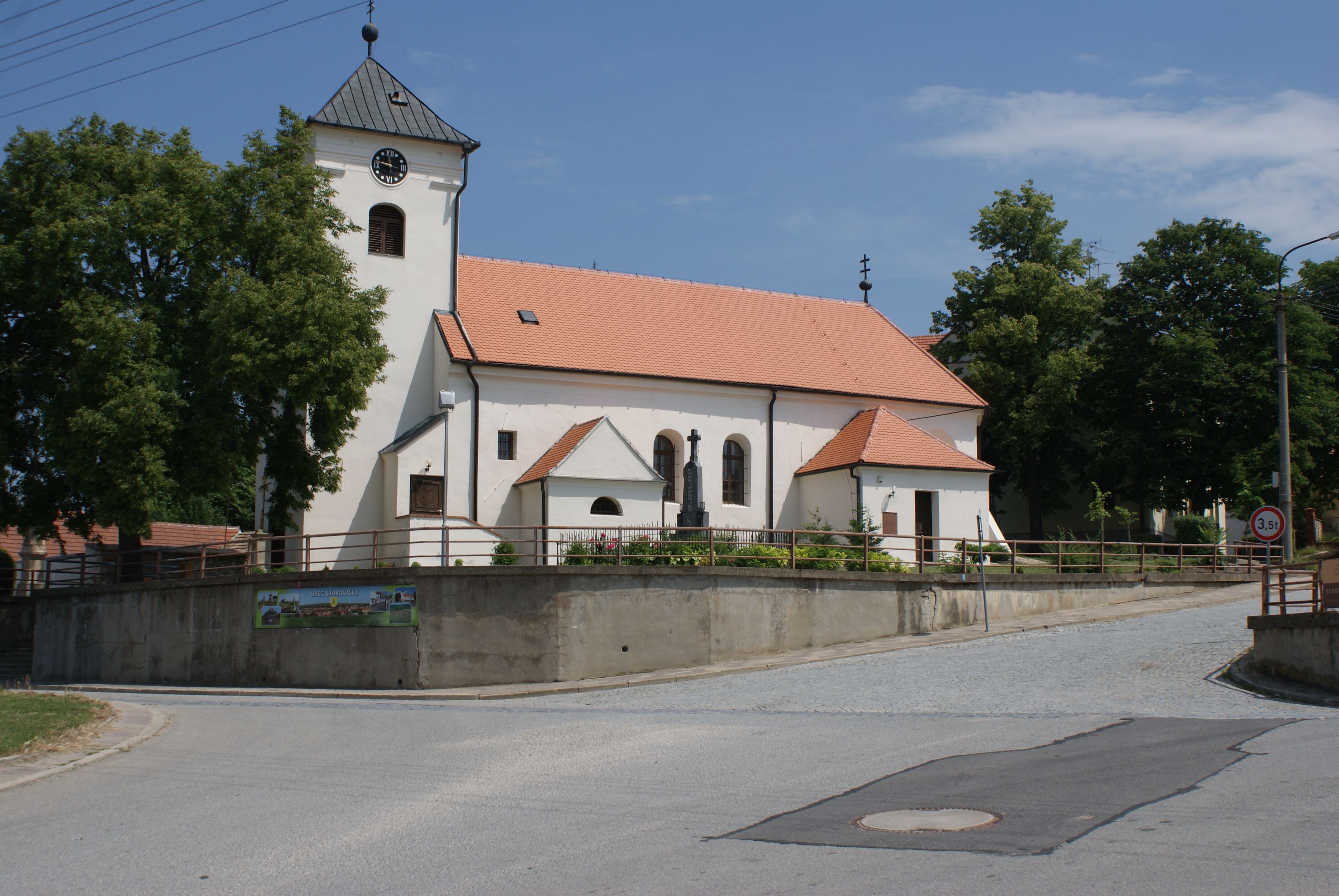 Starovičky, a village in Břeclav District, Czech Republic, church of St Catherine.